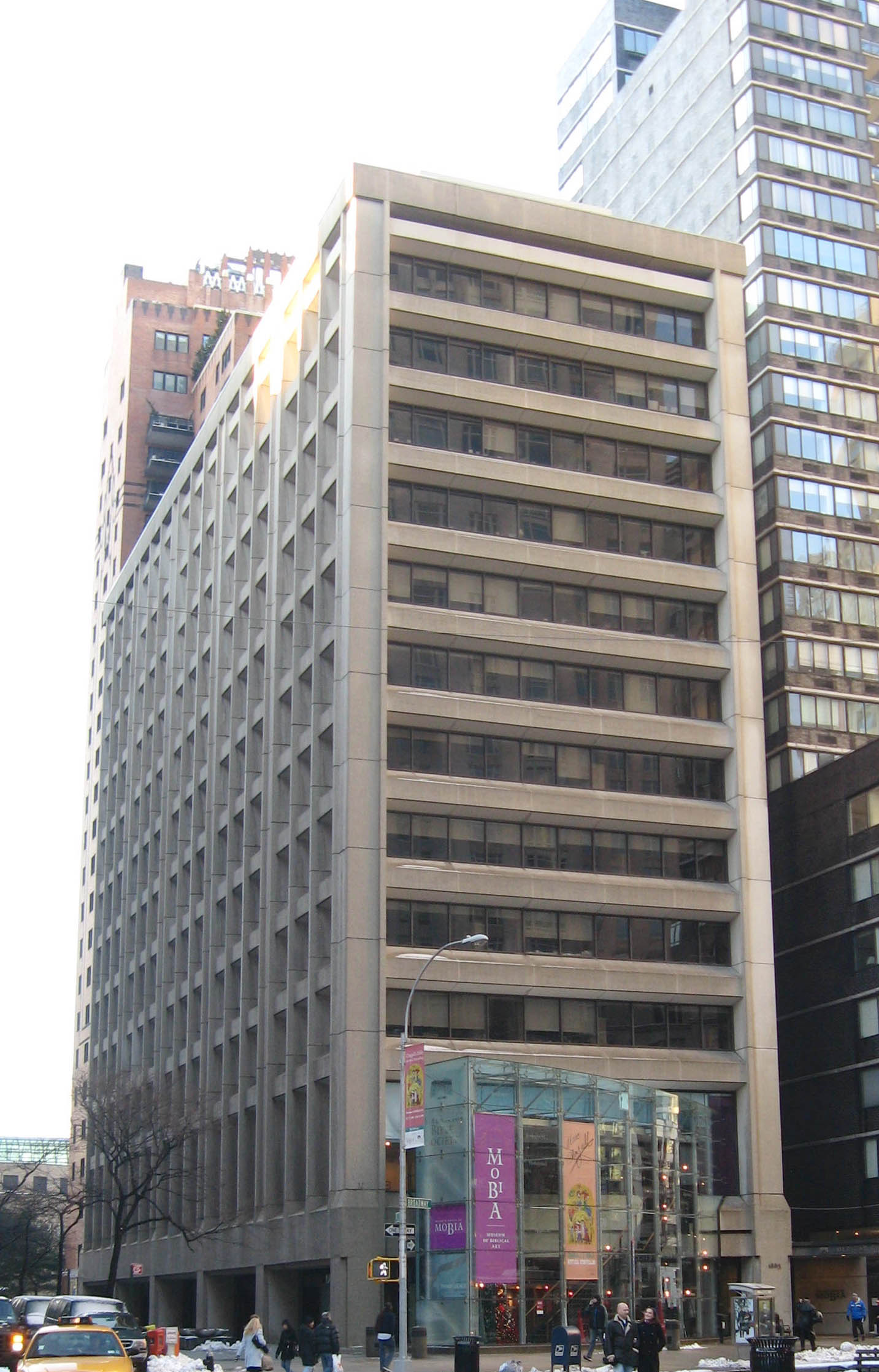 Looking northwest across Broadway and 61st Street at American Bible Society (demolished in 2016) on a cloudy afternoon. ZIP 10022.